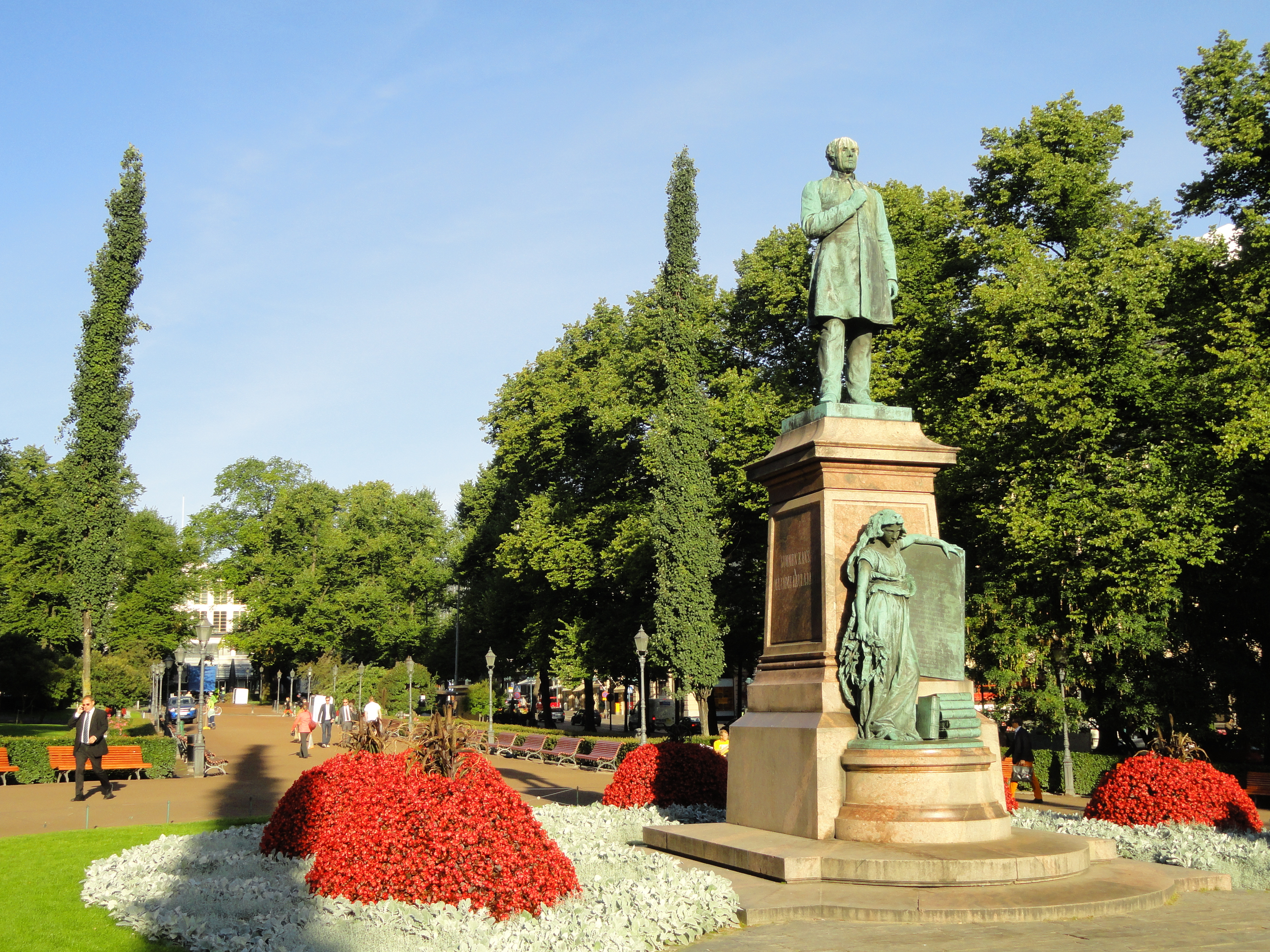 Statue of Johan Ludvig Runeberg, Esplanadi, Helsinki, Finland. Sculptor: Walter Runeberg. This artwork is in the public domain because the artist died more than 70 years ago.